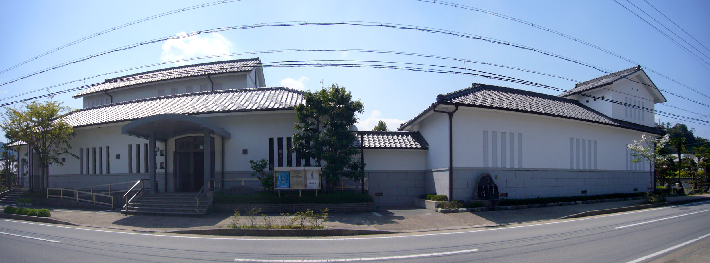 Kaibara-cho Historical Museum and Den-Sutejyo Memorial in Tamba, Japan